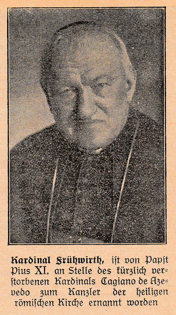 From the Catholic magazine StadtGottes 1927